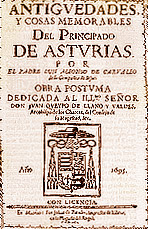 Original cover design for the 1695 edition of the "Historia de las Antigüedades y cosas memorables del Principado de Asturias" (History of the Antiquity and memorable things of the Principality of Asturias) of Luis Alfonso de Carvallo